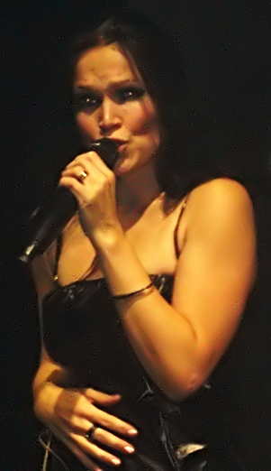 A better and more visible version of the photo TarjainSofia2.jpg